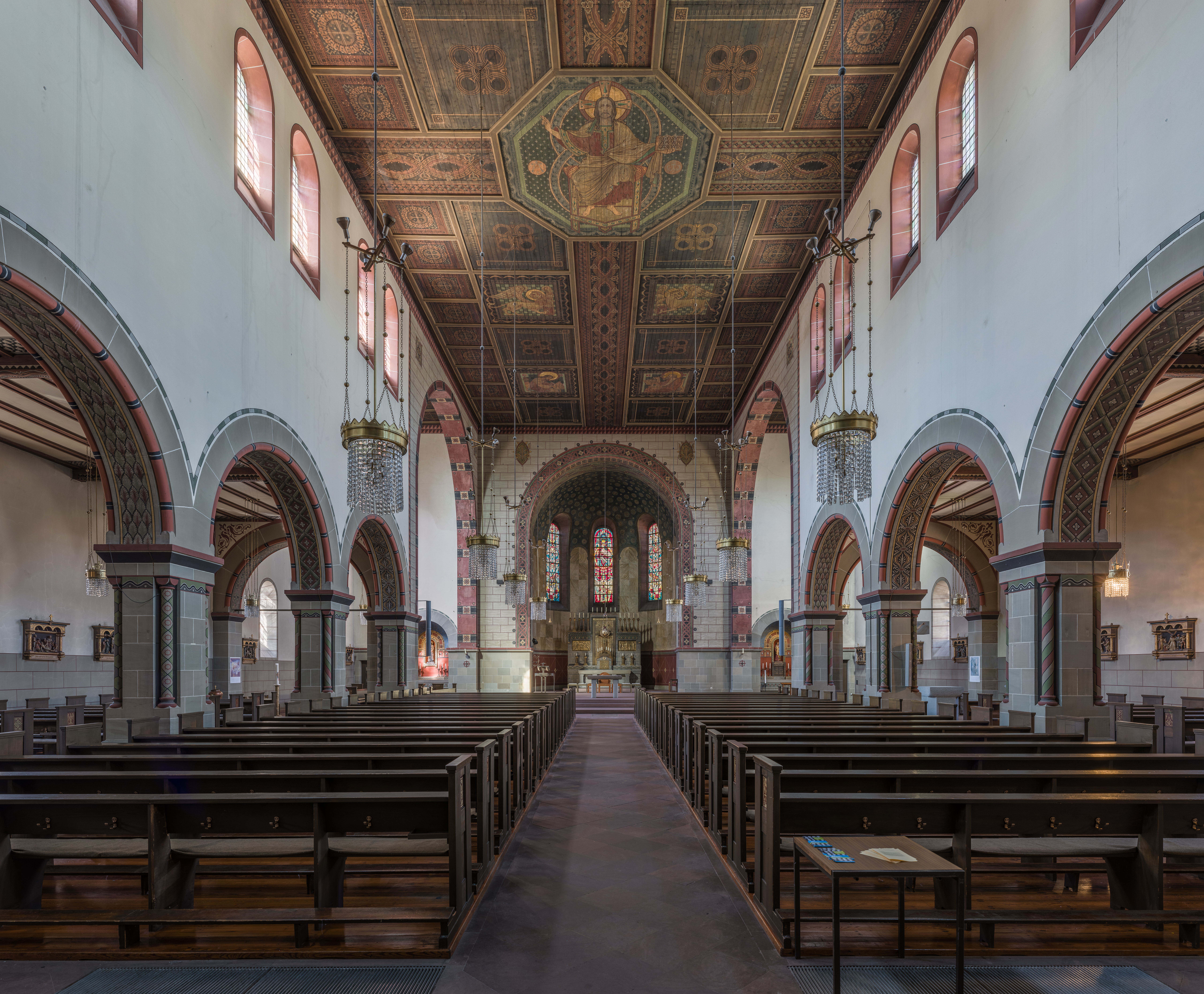 An interior view of St.-Josefs-Kirche, Frankfurt-Höchst